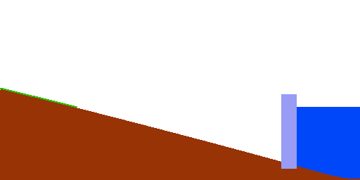 Reclamation works - 05